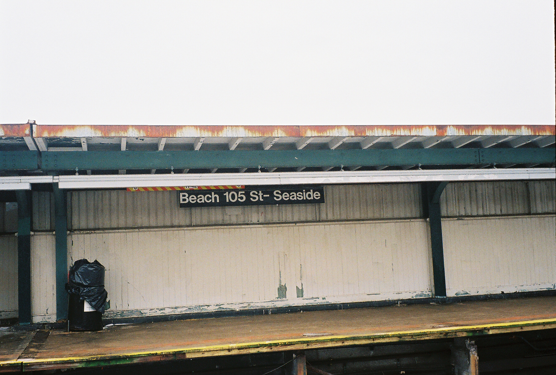 Photo of subway station.